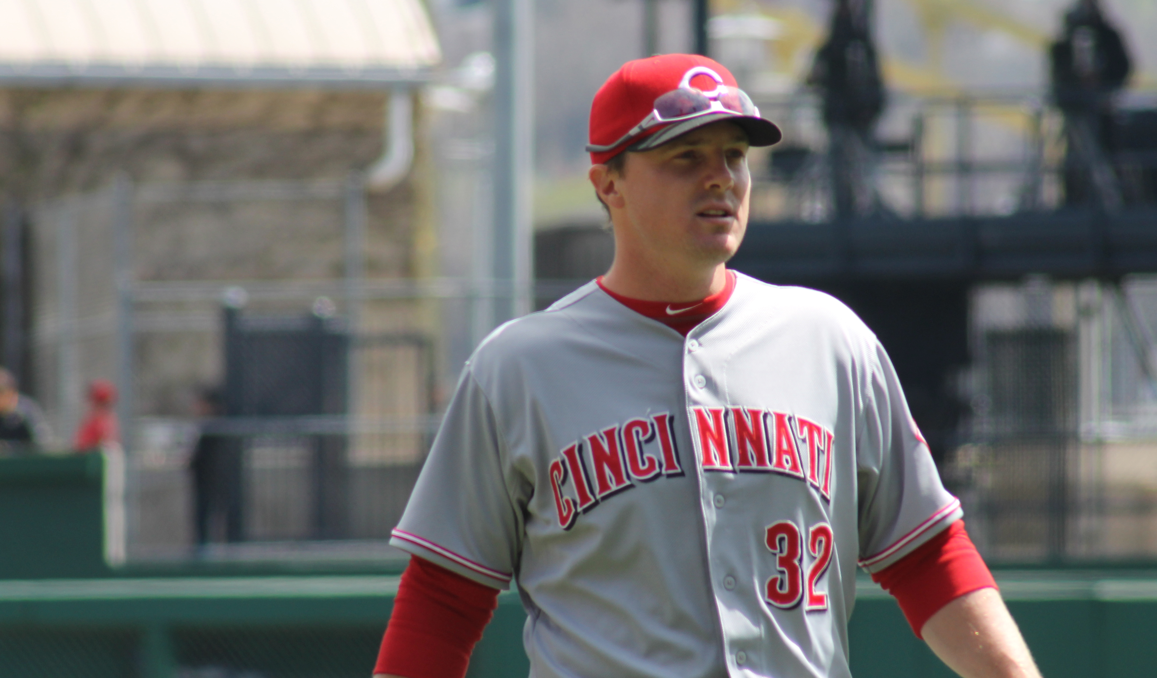 Reds' outfielder Jay Bruce.